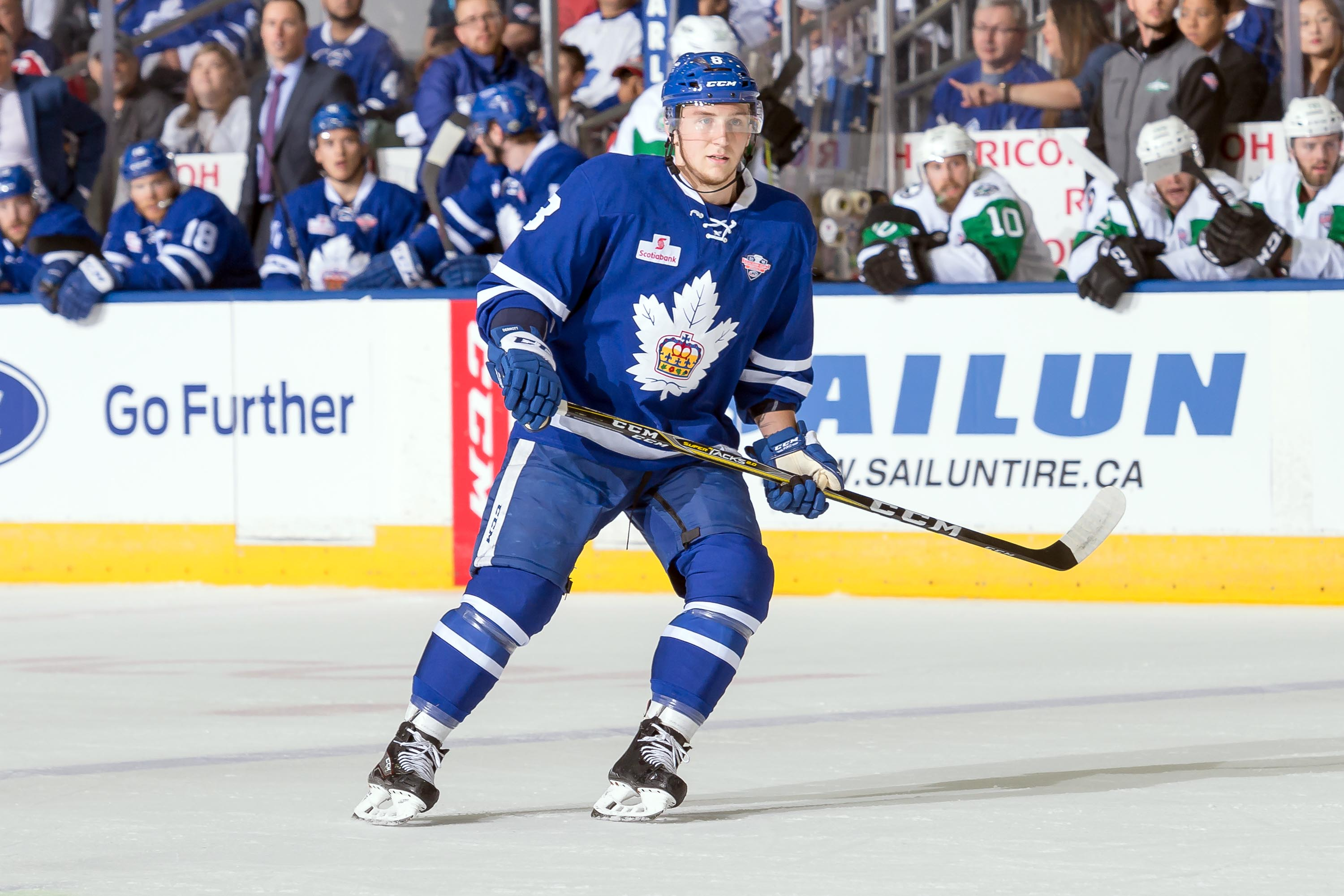 Photo: Christian Bonin